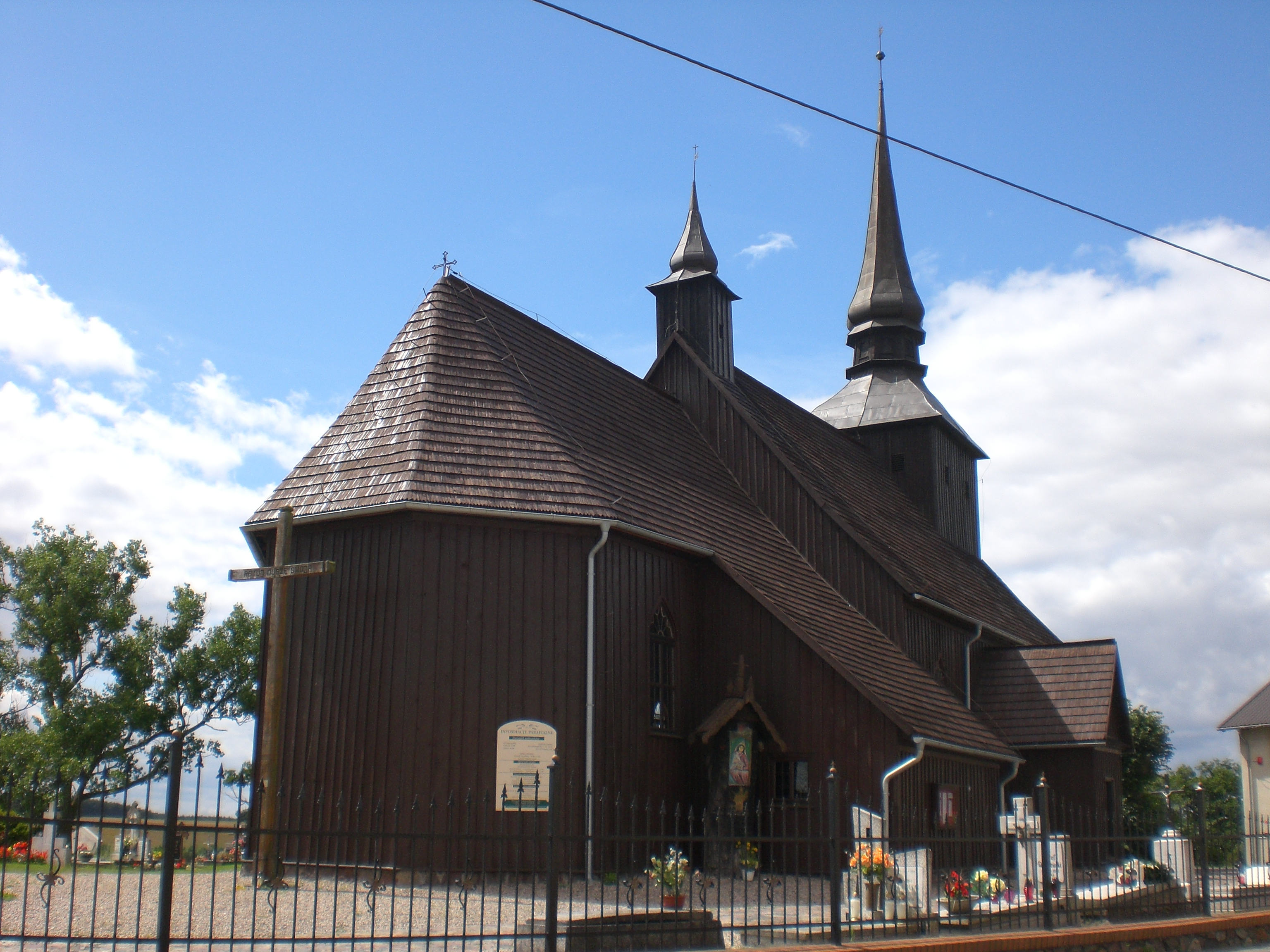 Borzyszkowy - St. Martin from Tours church (bd. 1721-1726)